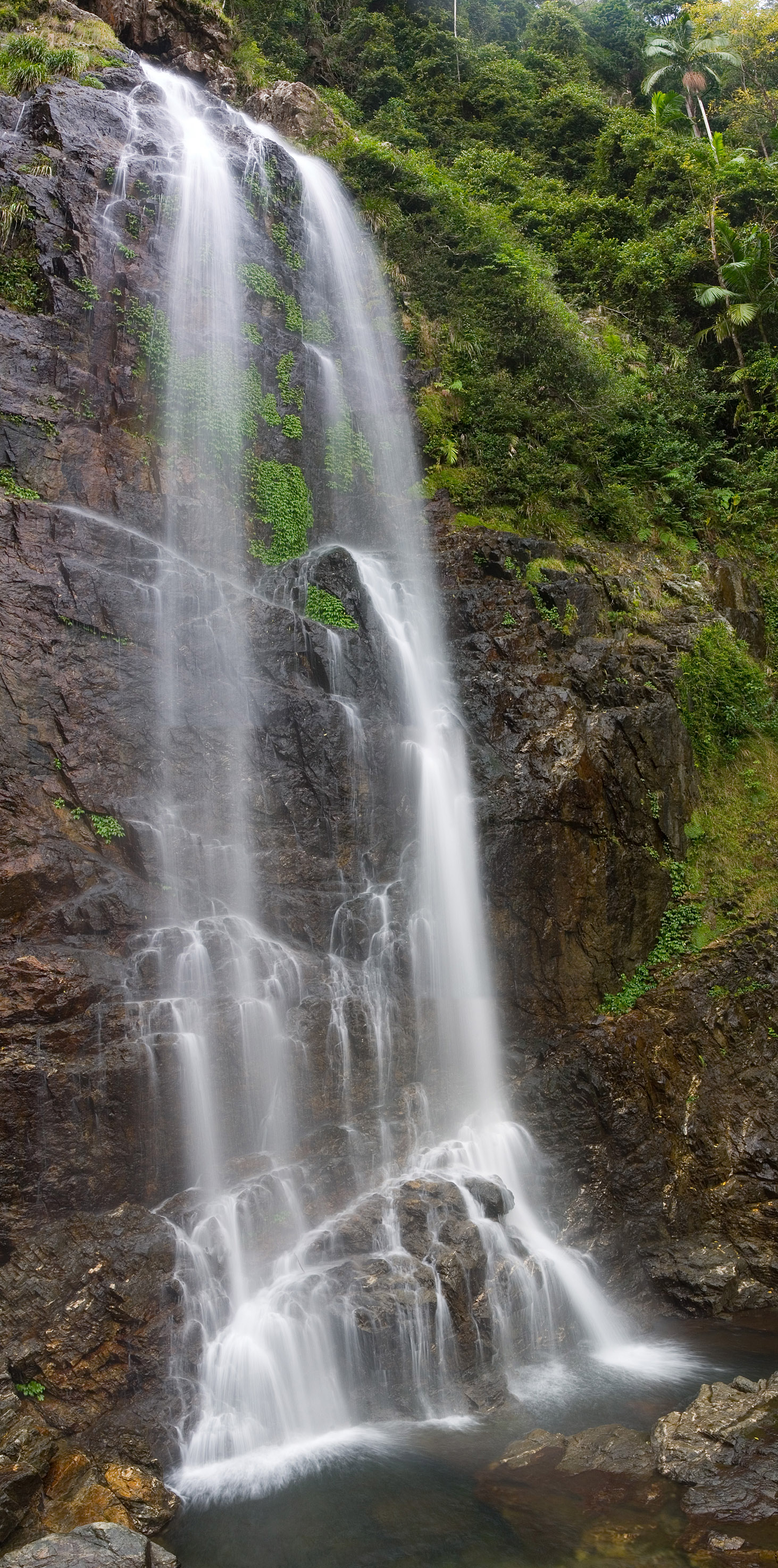 A panorama of 5 photos stitched together of the Cedar Falls along the Never Never circuit in Dorrigo National Park.